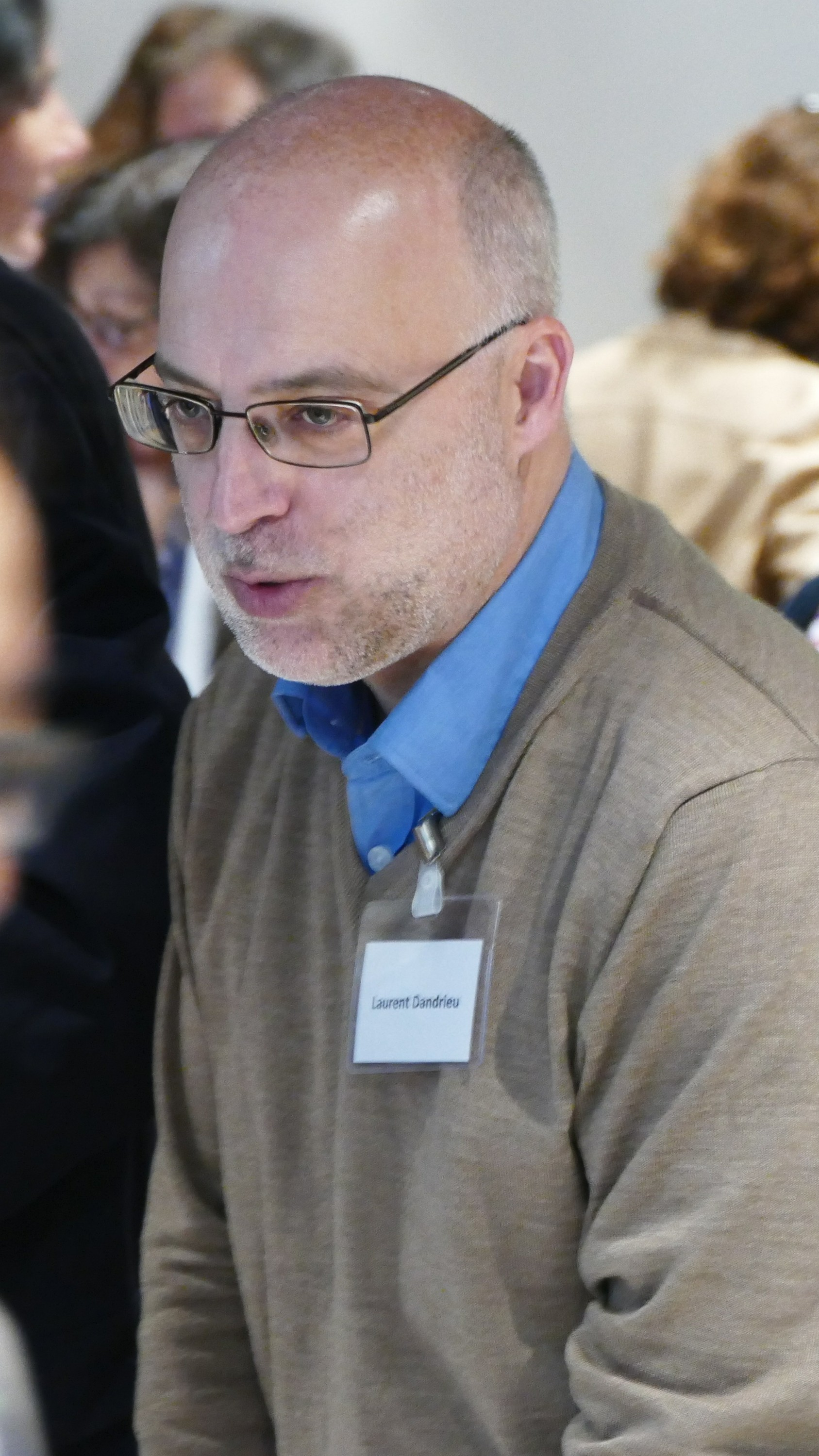 Laurent Dandrieu at Salon du livre et de la famille in Paris (Île-de-France, France).